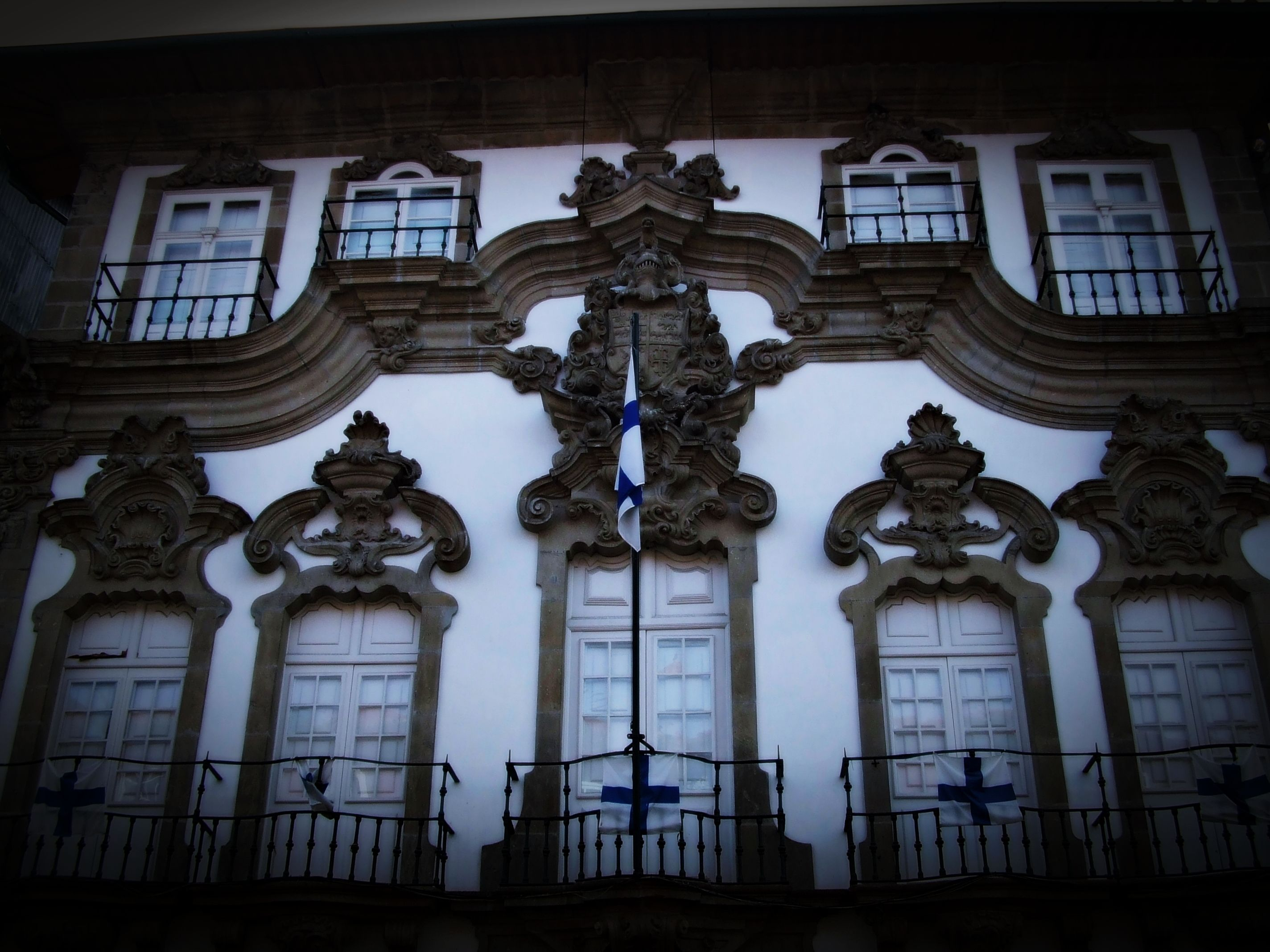 Casa dos Lobos Machados no Centro Histórico de Guimarães. This file was uploaded for Wiki Loves Monuments in Portugal with the unique identifier 74841.